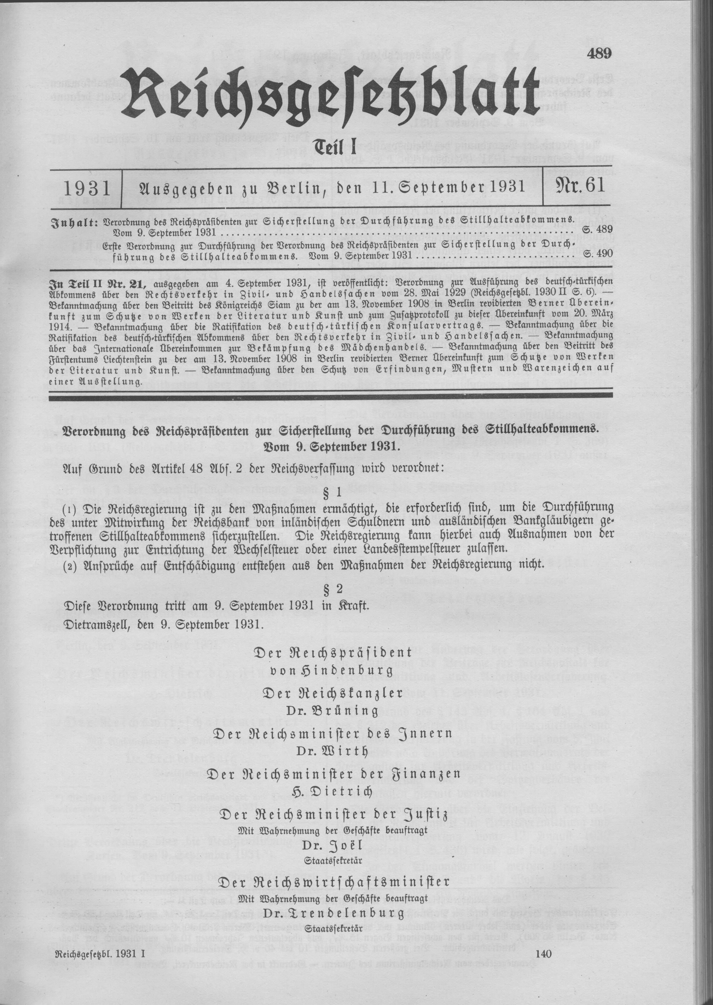 Scan from the Imperial Law Gazette of Germany, 1931, part 1